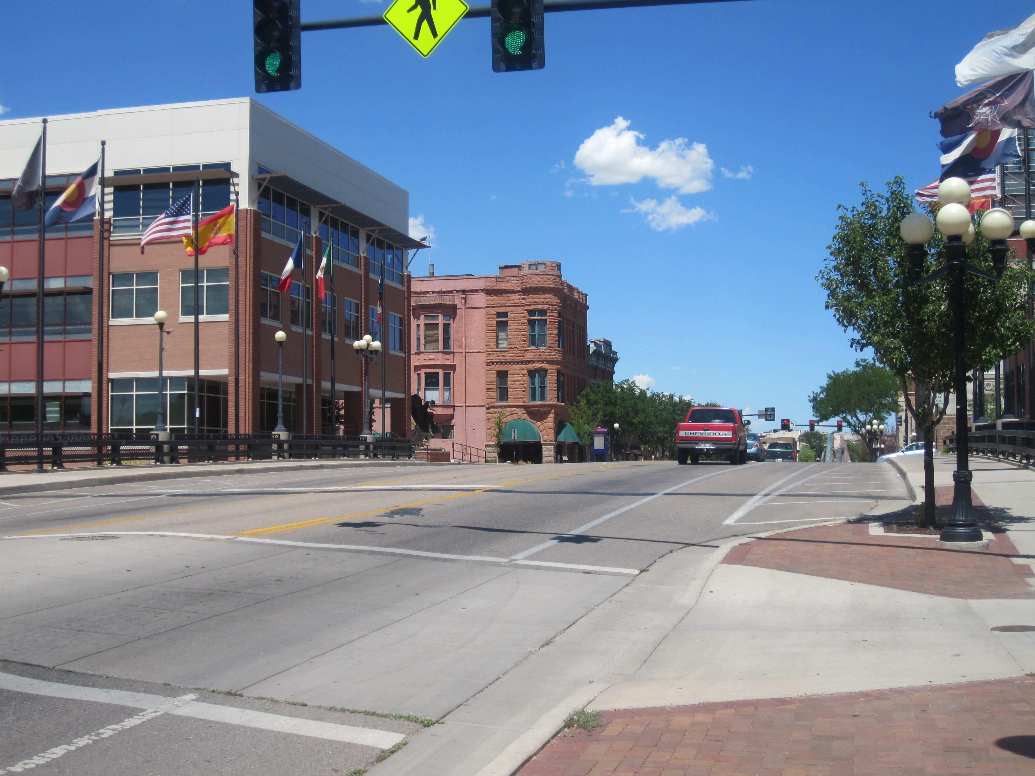 I took photo with Canon camera in Pueblo, CO.